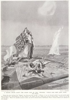 A Royal Marine holding up the British White Ensign during the Battle of Zanzibar on September 20, 1914. First World War antique black and white book plate. published c.1916-18 Paper size 10.5 inches x 8.5 inches (27cm x 22cm)